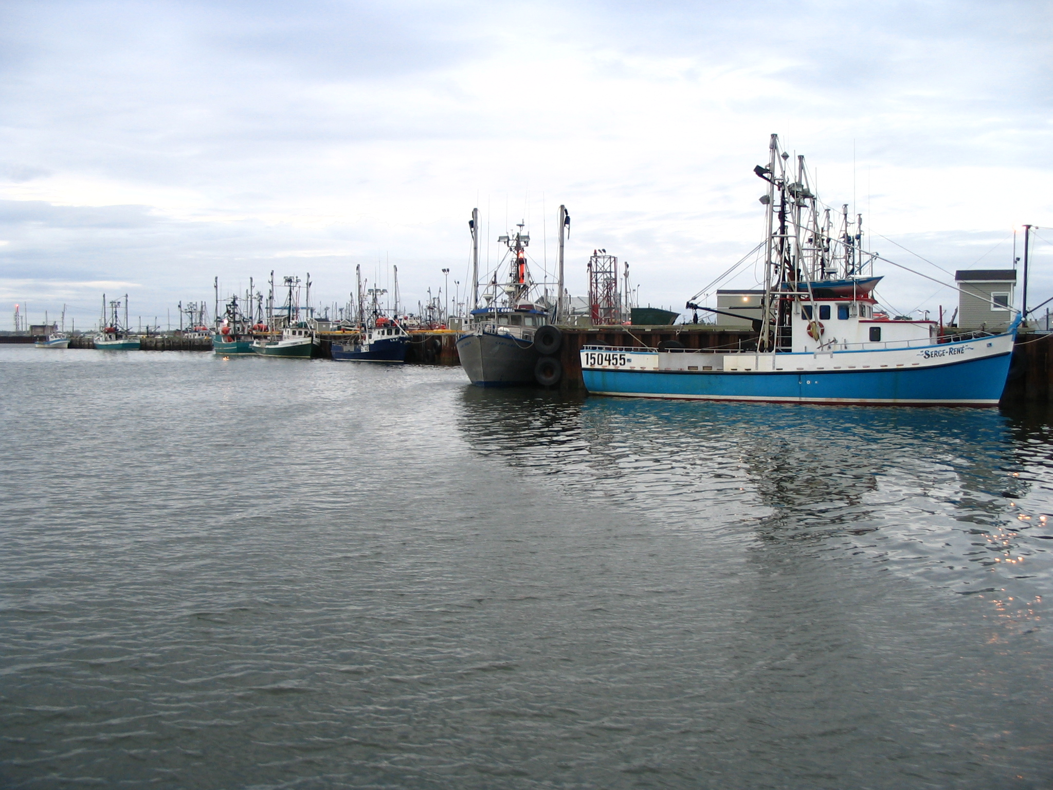 Port Shippagan NB N.-B. Canada New Brunswick Nouveau-Brunswick Nouveau Brunswick mer sea fishery peche pêche bateau boat quai